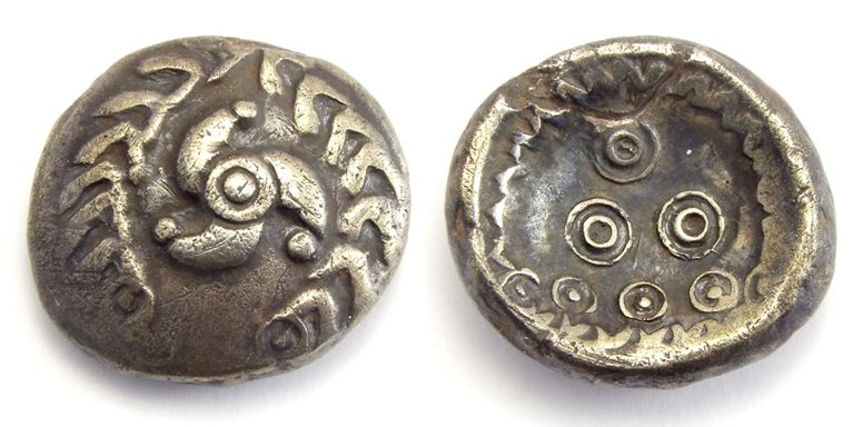 Celts, electrum rainbow cup.